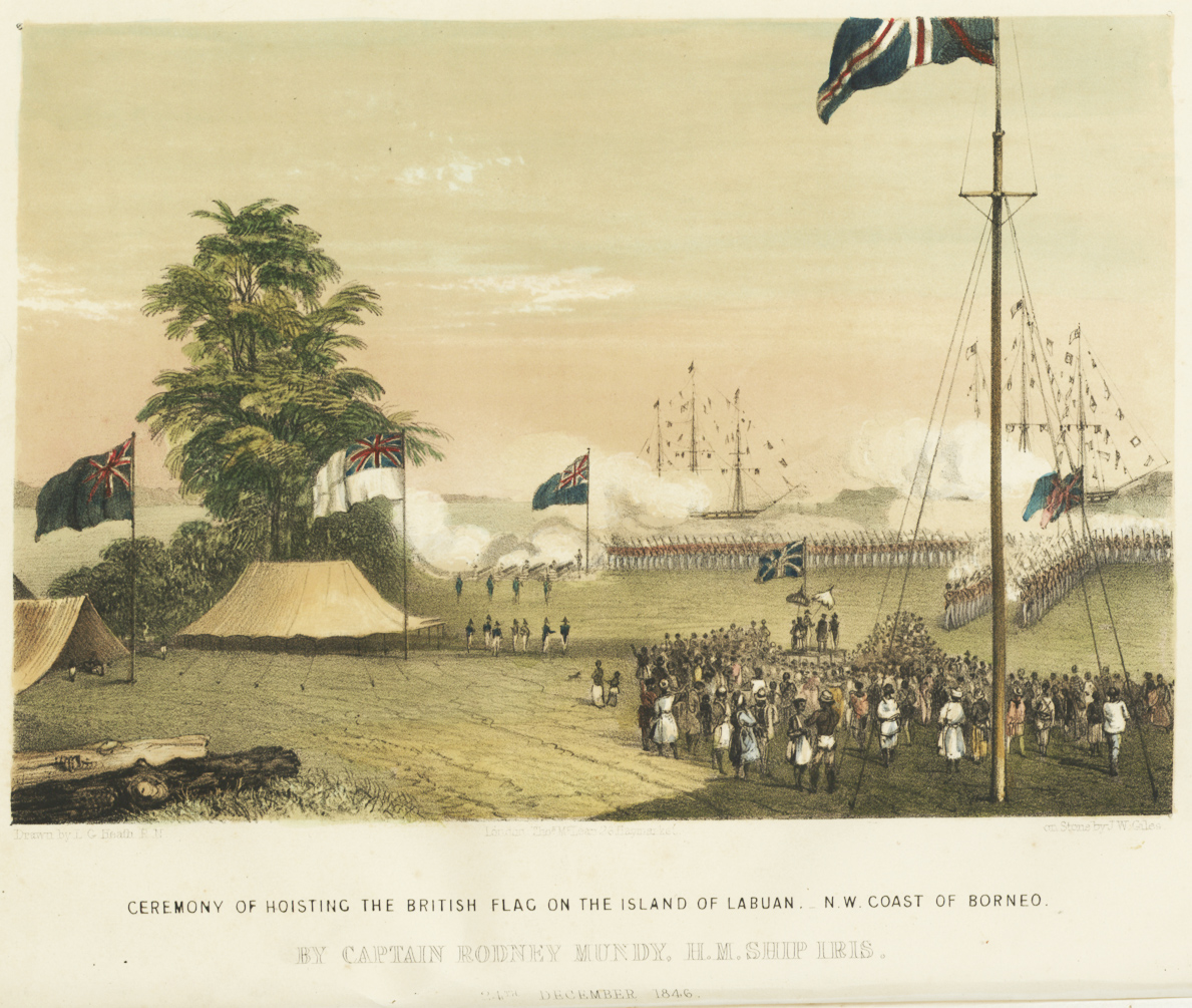 Ceremony of Hoisting the British Flag on the Island of Labuan, North West Coast of Borneo, By Captain Munday (1805–1884), HMS Iris, 24th December 1846 at the location which is known today as "Ramsey Point".